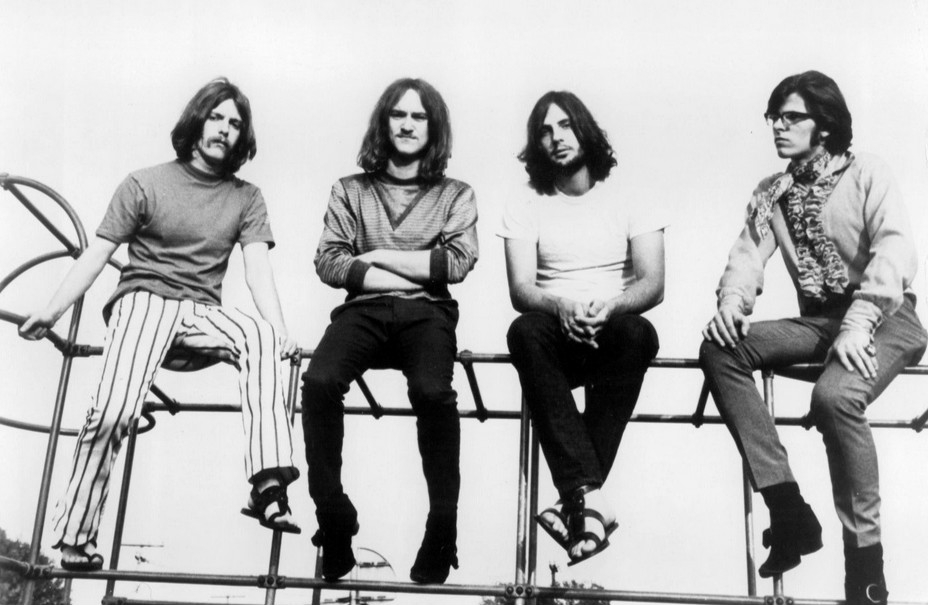 Photo of the musical group Frijid Pink.